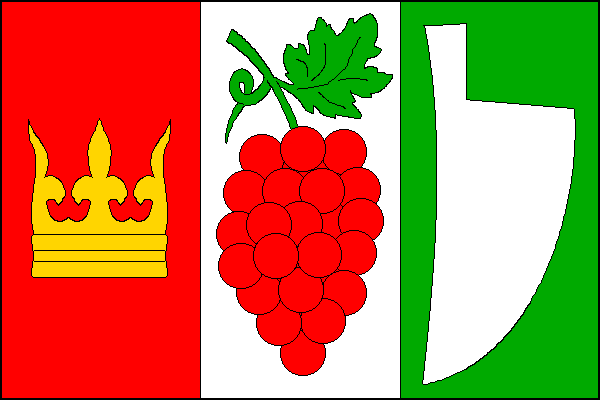 Municipal flag of Josefov village, Hodonín District, Czech Republic.